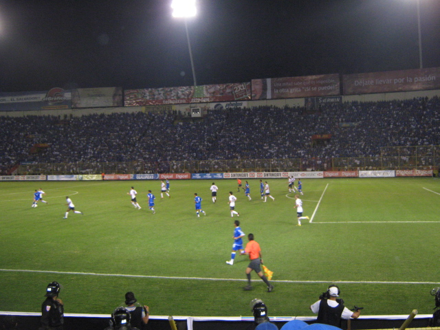 El Salvador's soccer national team in a match with USA's team